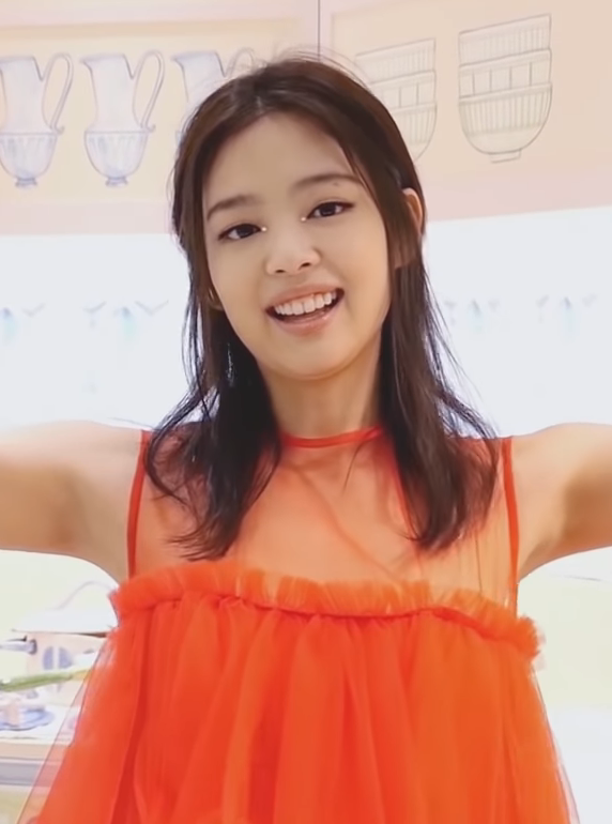 Jennie Kim in JentleHome Tour with Jennie on May 15, 2020.